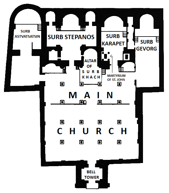 Floor plan of the Surb Karapet Monastery. My own work based on the plan that from: Hewsen, Robert (2001). "Mush and Its Plain". Armenia: A Historical Atlas. University of Chicago Press. p. 206.